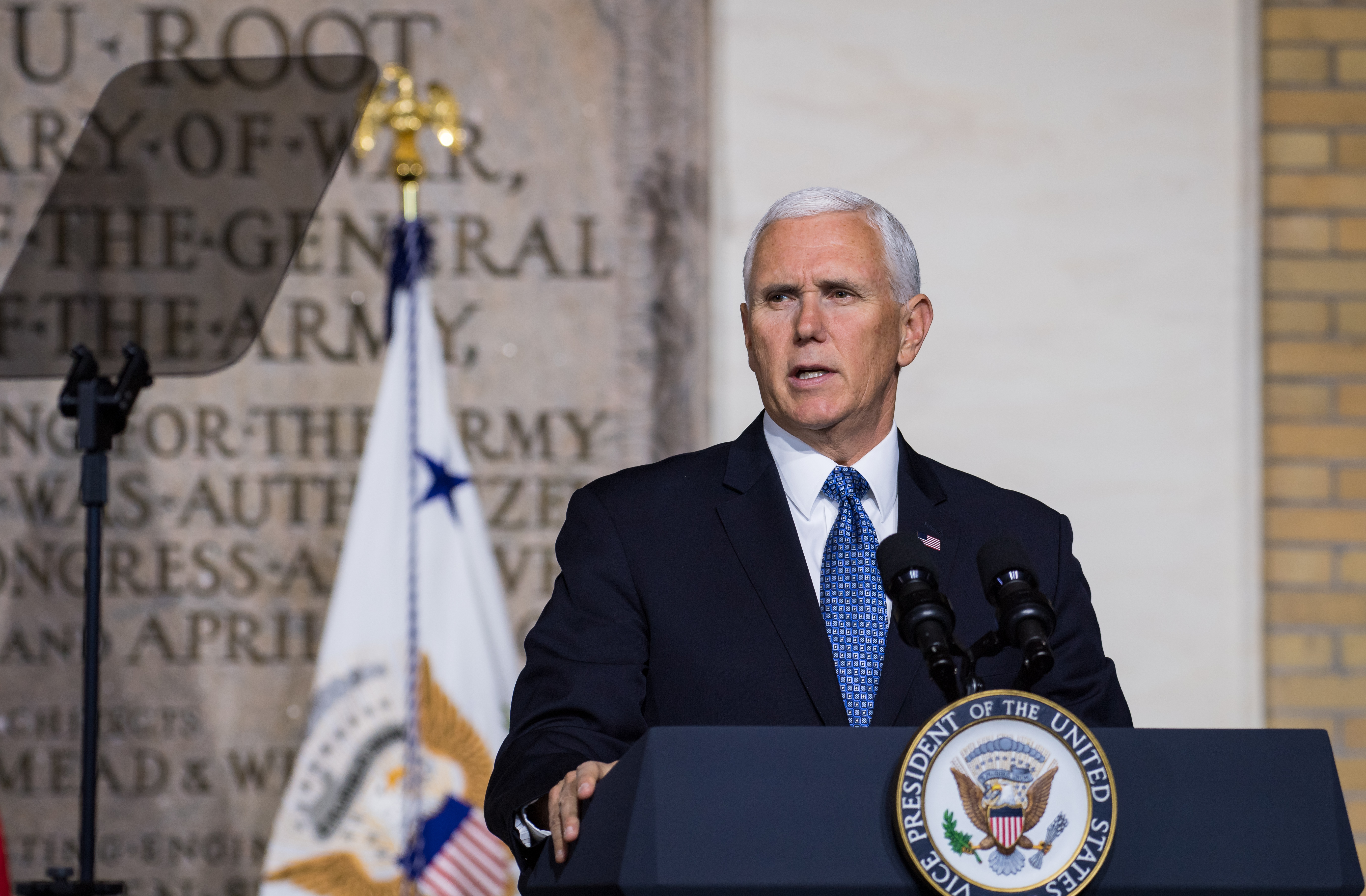 Vice President Mike Pence delivers opening remarks during the National Space Council meeting titled, "Moon, Mars, and Worlds Beyond, Winning the Next Frontier," Tuesday, Oct. 23, 2018 at the National War College at Fort Lesley J. McNair in Washington. Chaired by the Vice President, the council's role is to advise the President regarding national space policy and strategy, and review the nation's long-range goals for space activities.